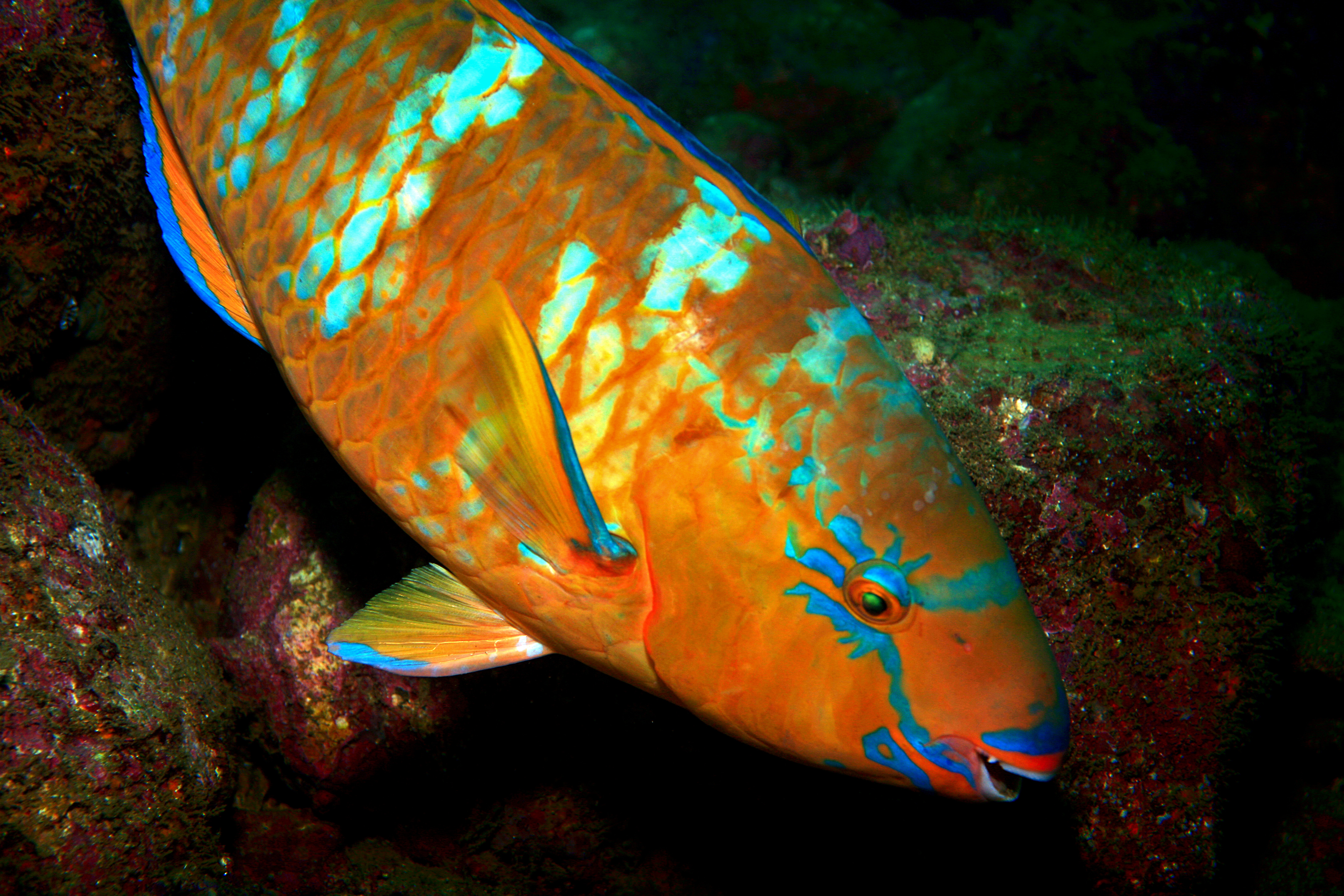 Showing off it's fancy colors, the Blue-Barred (or Bluechin) Parrotfish (Scarus ghobban) forages at Pirámides (Pyramids) dive site near Santa Catalina, Panama.